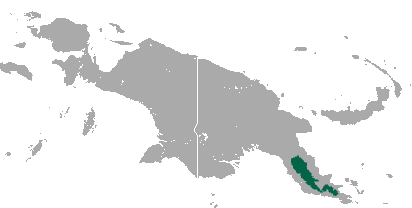 Papuan Bandicoot (Microperoryctes papuensis) range